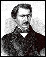 A drawing of Brazilian writer Gonçalves de Magalhães